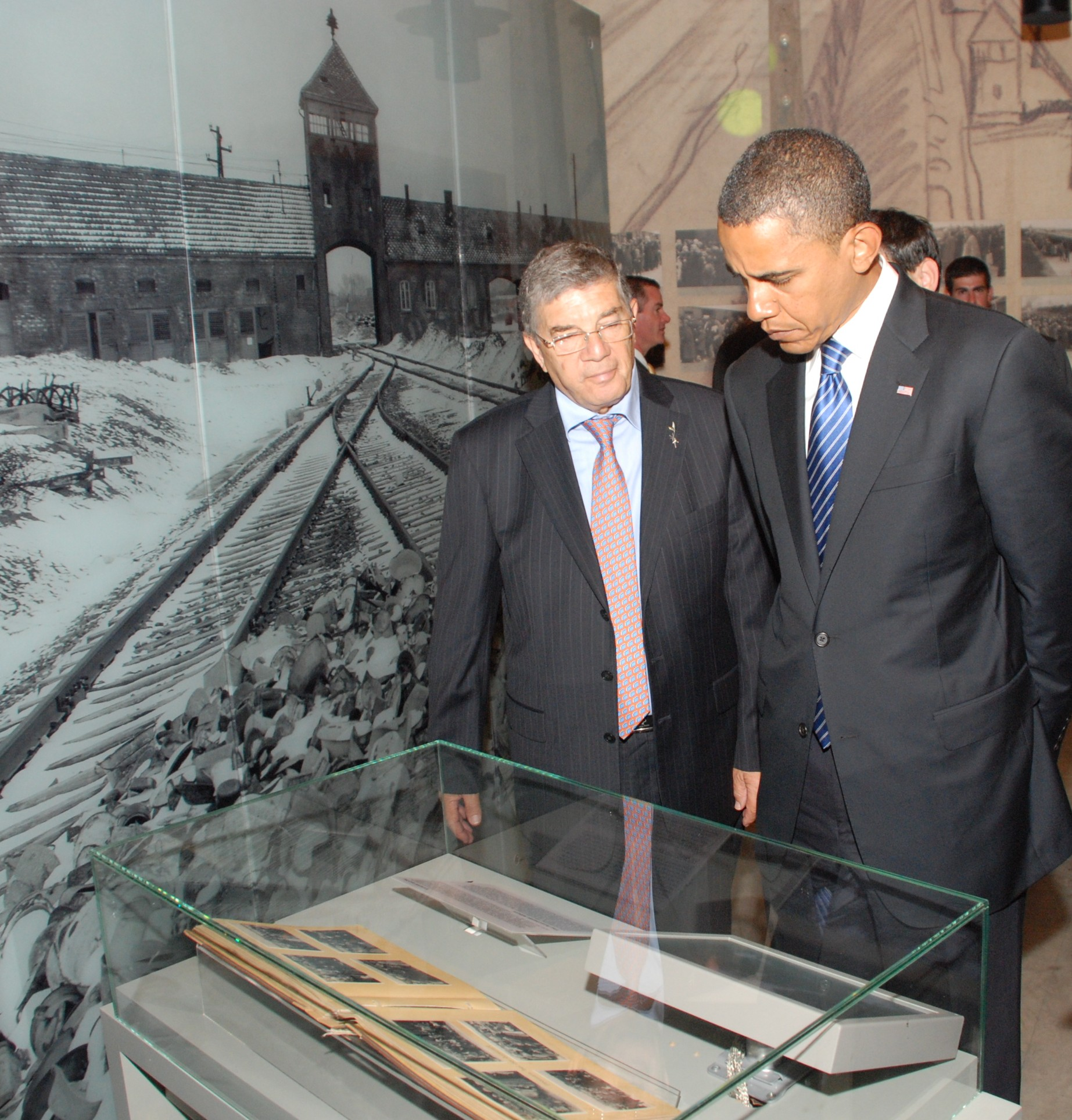 Shalev tours Barack Obama, democratic candidate for the US presidency, in Yad Vashem